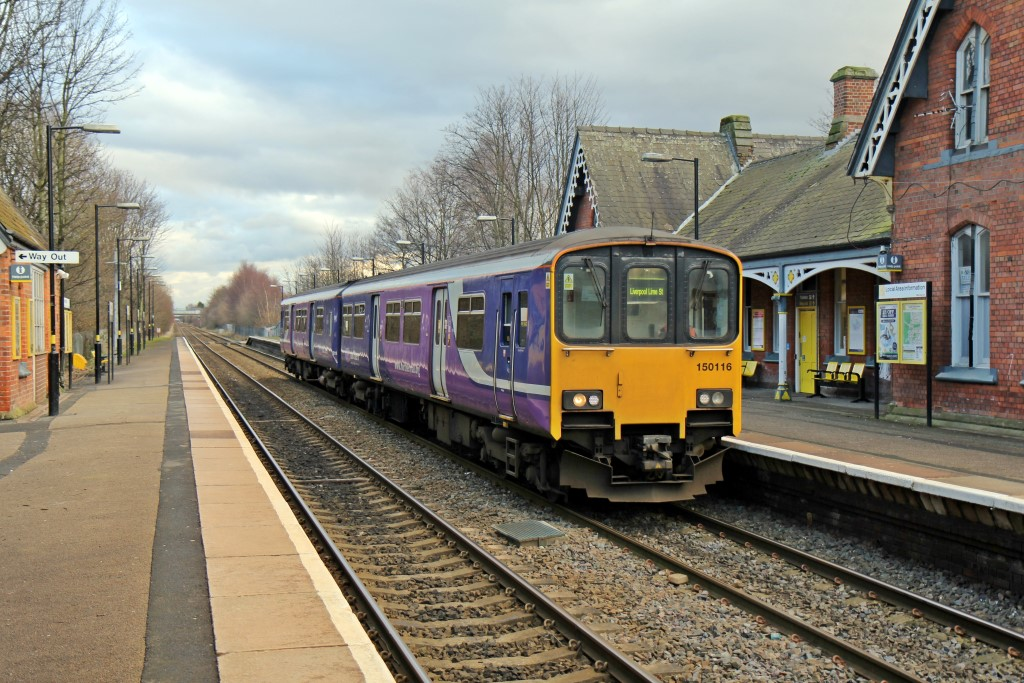 Northern Rail Class 150, 150116, Hough Green railway station